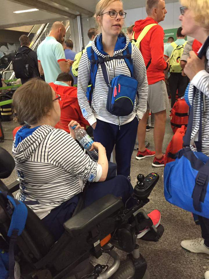 Photo taken in Rio ahead of the Paralympic Games. Woman in wheelchair is a shooter for Finland. Minna Sinikka Leinonen.